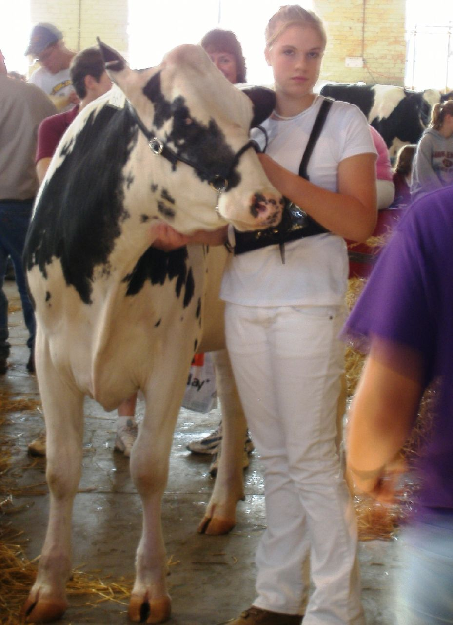 Showing a Holstein cow, Minnesota State Fair, Falcon Heights, Minnesota